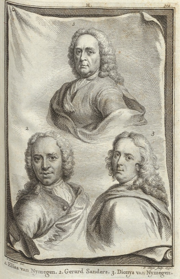 Elias van Nymegen, Gerard Sanders and Dionys van Nymegen